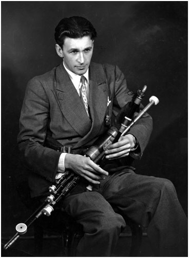 Photo of Séamus Ennis